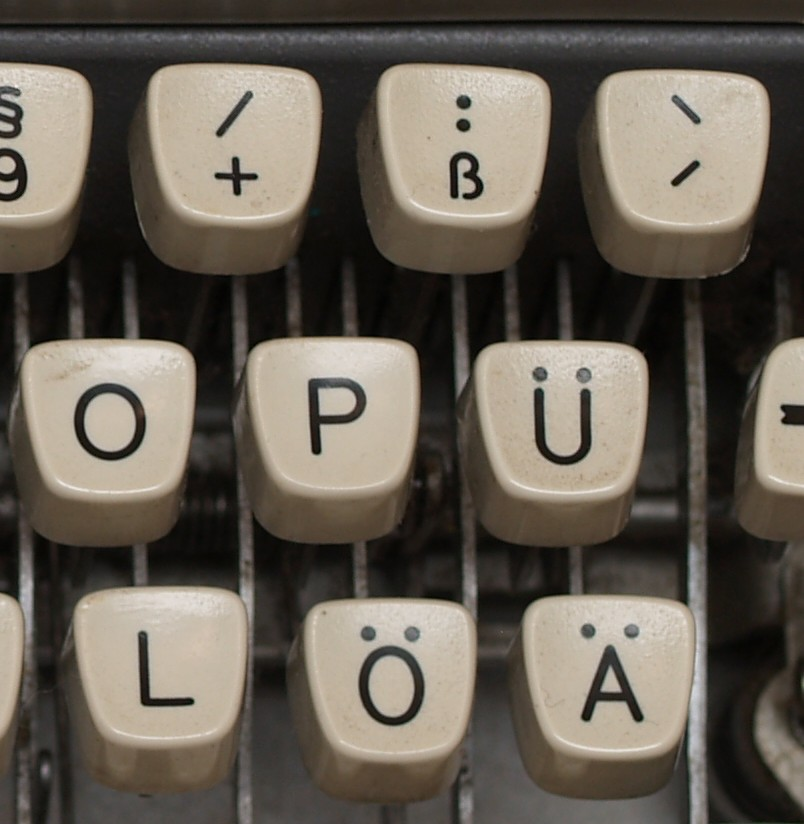 Upper right portion of a German 1964 Olympia typewriter showing the placement of ß and umlauts. Detail of Wikimedia commons image Photographer: Arnold Paul, 2006-03-02